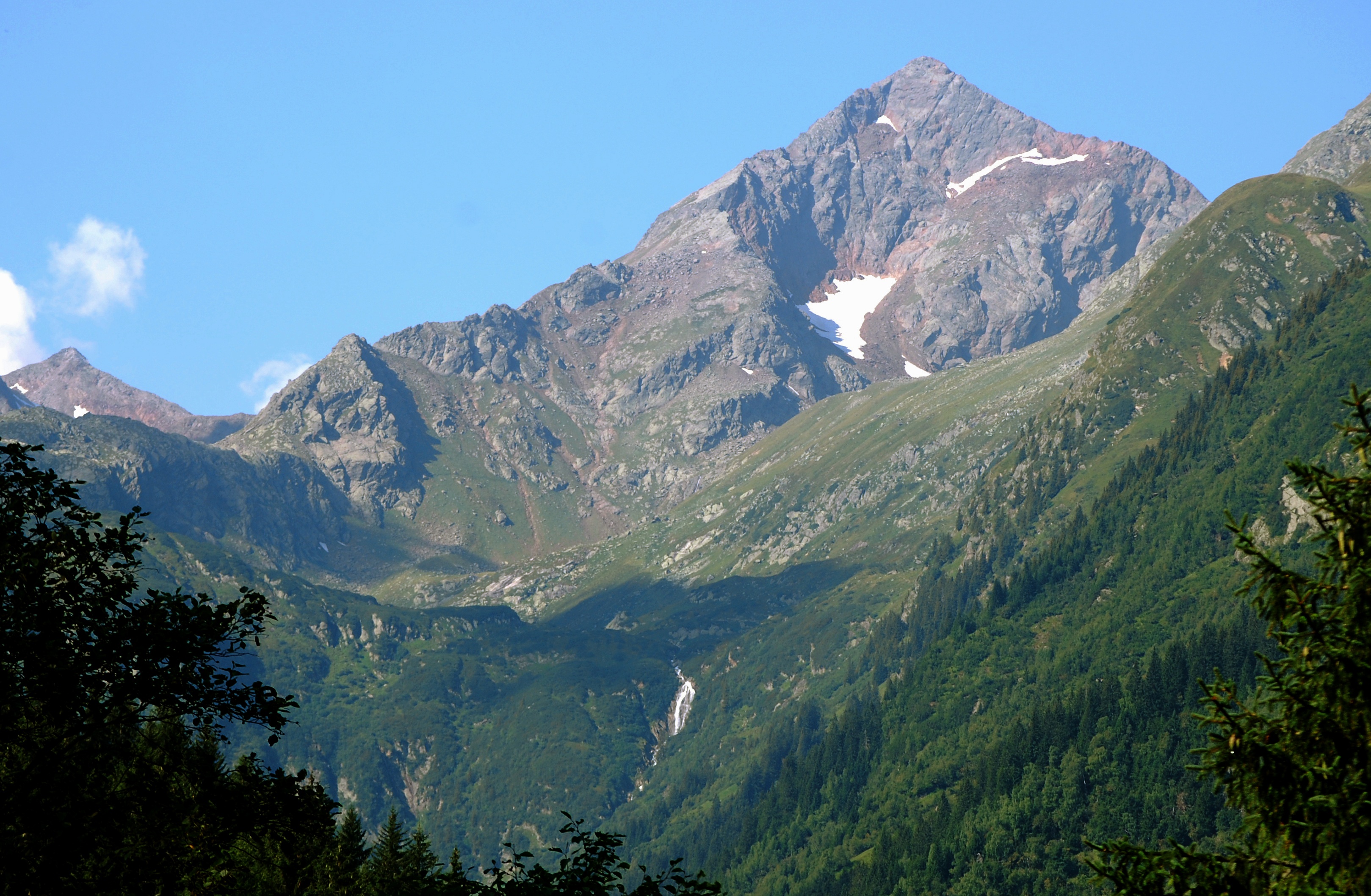 Innere Wetterspitze 3053m from NE